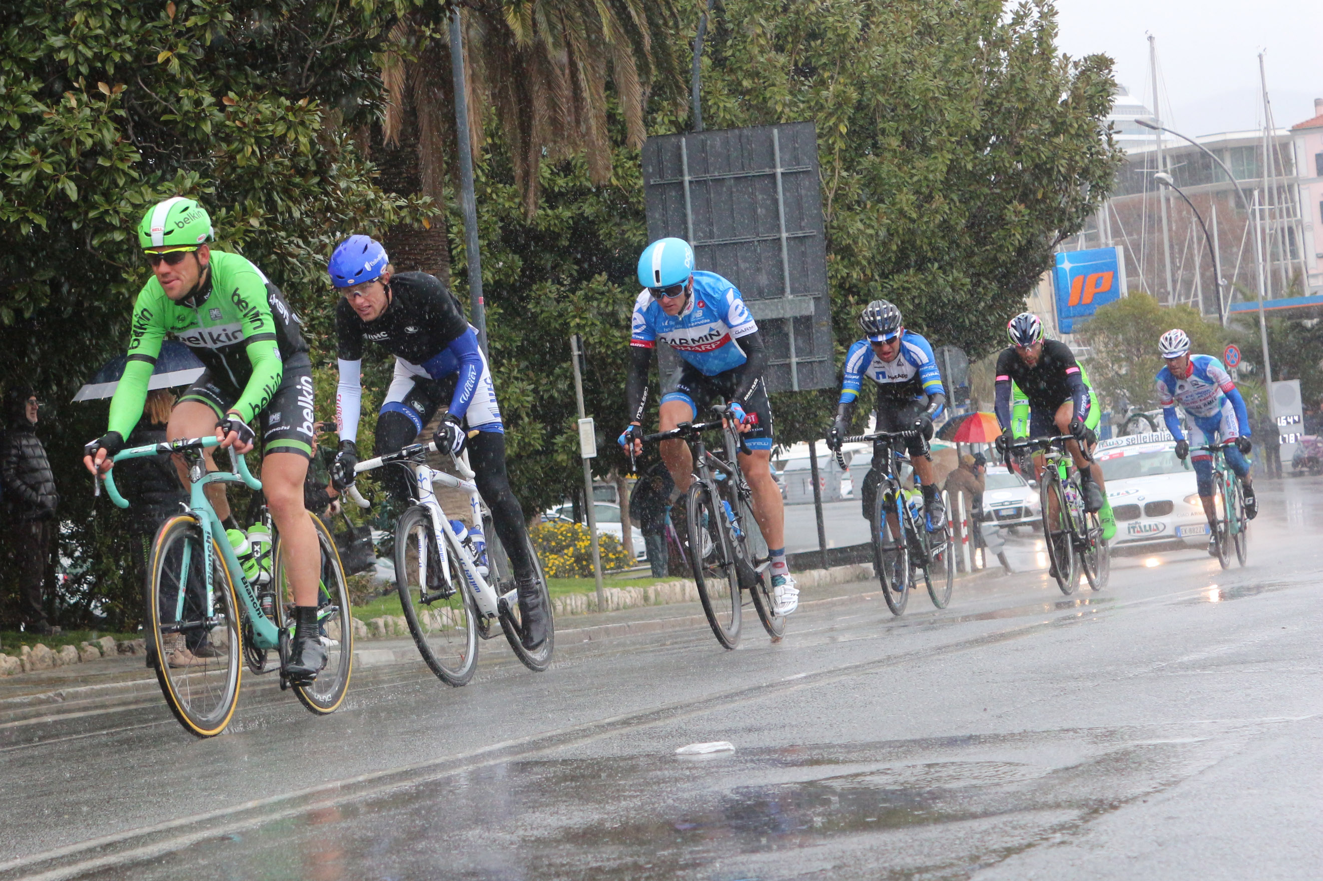 Lead group, Milan-Sanremo 2014, Savona. Maarten Tjallingii (Belkin), Marc de Maar (Unitedhealthcare), Nathan Haas (Garmin), Jan Barta (NetApp), Matteo Bono (Lampre), Nicola Boem (Bardiani), Antonino Parrinello (Androni)